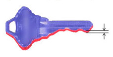 Diagram demonstrating Key Relevance, using rough key image derived from